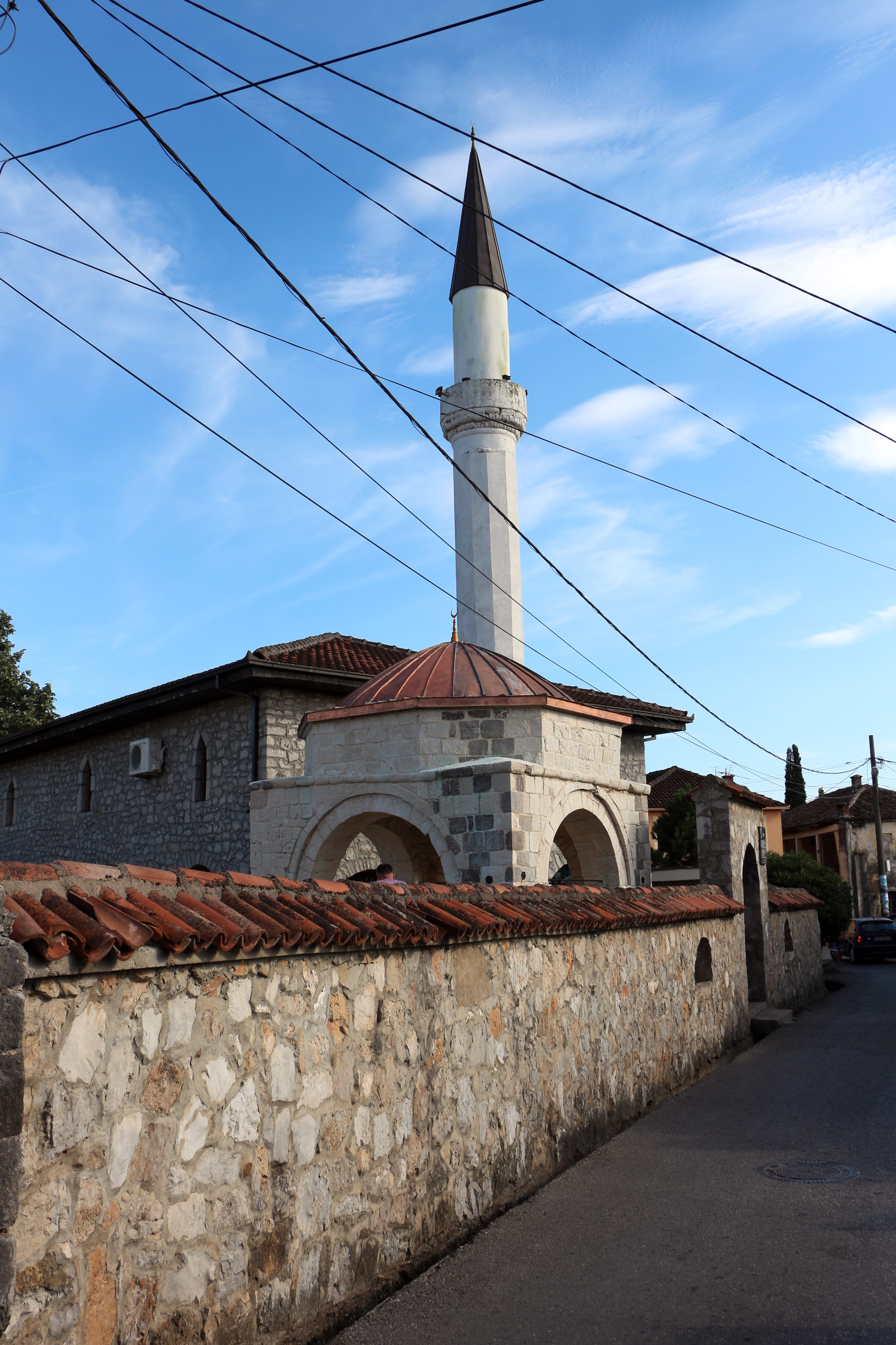 Mosques in Podgorica